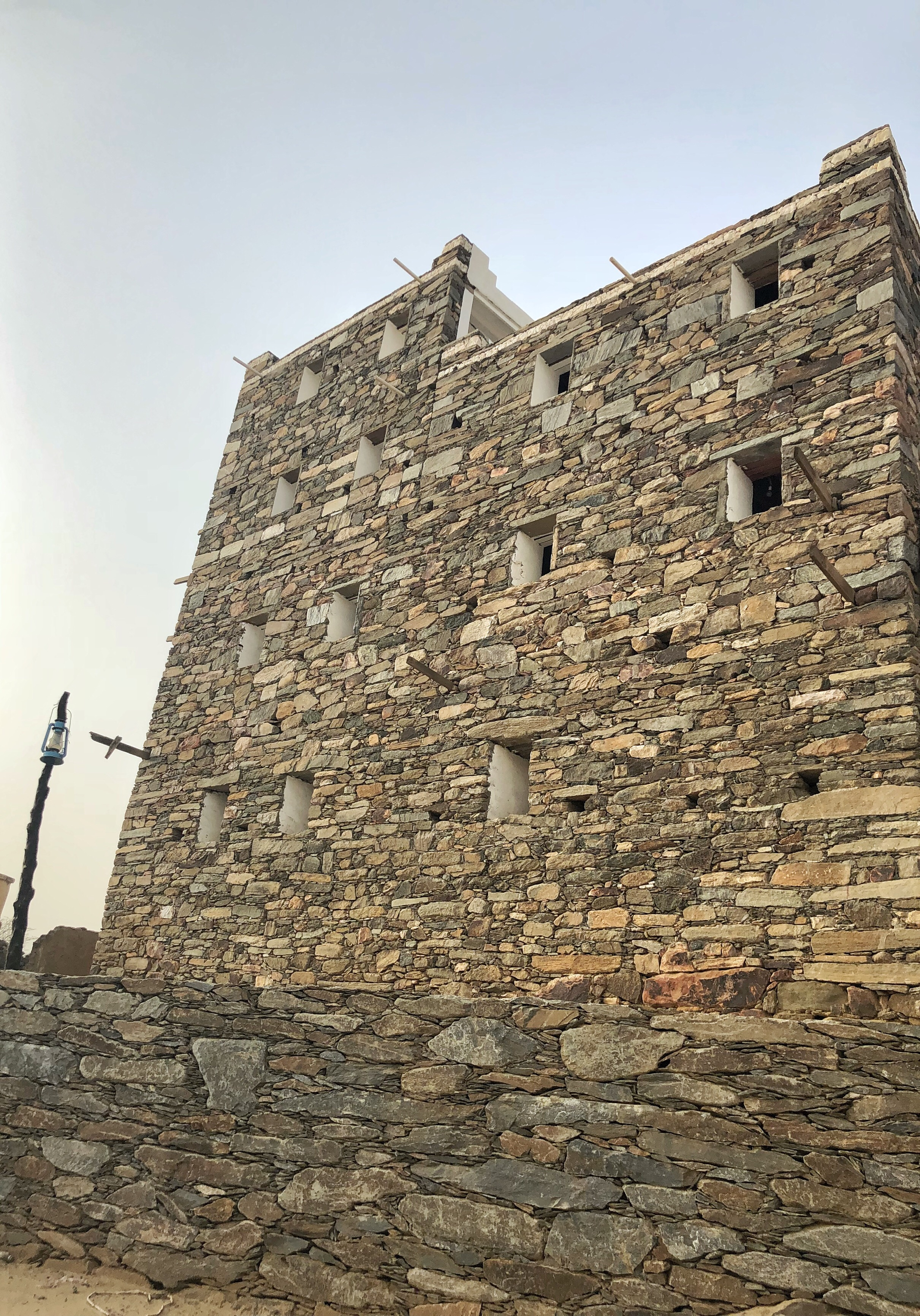 أحد القصور الآثرية في محافظة بارق